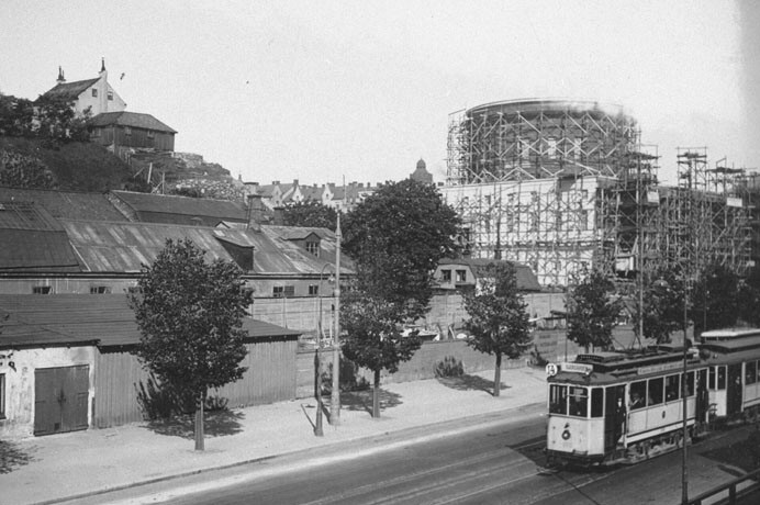 Stockholm Public Library 1927